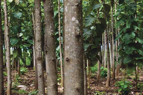 Teak tree planted in rows on a Latin American plantation.